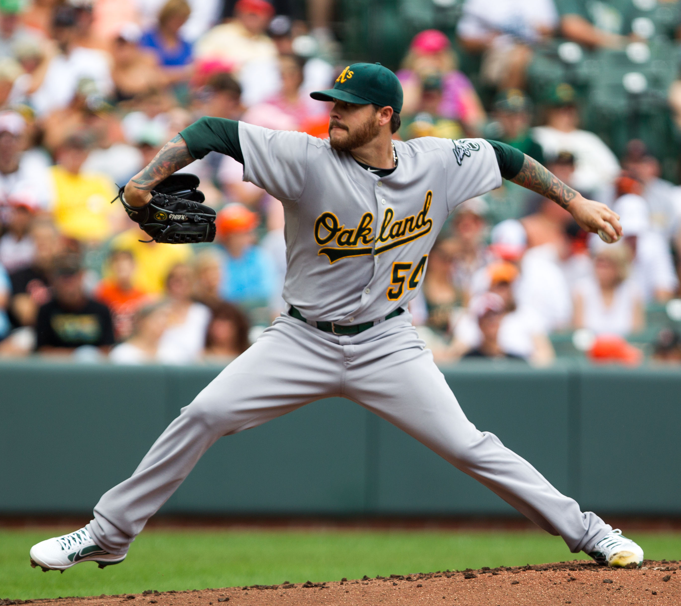 Travis Blackley